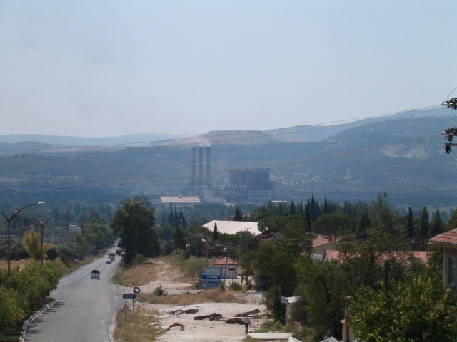 Yatagan Thermal Power Plant